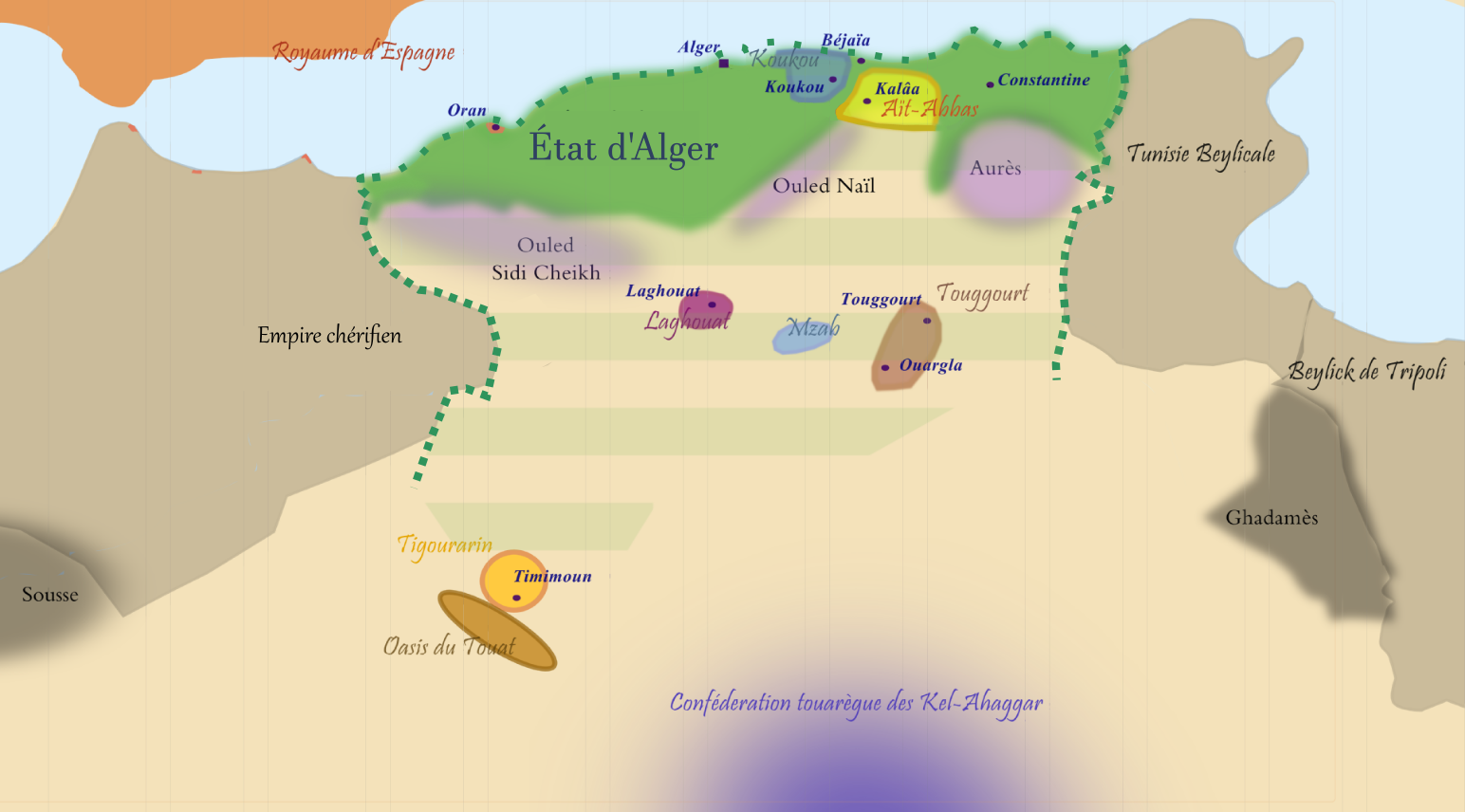 Map of the Regency of Algiers, kabyle's states and others Sultanates of Algeria in 18th century. Own Work Based on [1] and various historicals books as "L'Algérie des Algériens" by Mahfoud Kaddache. It also represents the road Algiers-Constantine punctuated by the strategic shift of Tiggoura (Iron Gates) where the Regency of Algiers pay a toll to a local sultan. The source for "Tigourarin" is Rachid Bellil, Les oasis du Gourara (Sahara algérien), Peeters Publishers, 1 janv. 1999 - 307 pages, in p.133, in the book the moroccan traveler Al Ayachi reports that there was an independent emirate in the "Tigourarin" (now called Gourara). The Twat is designated in the book as a groupe of oases.